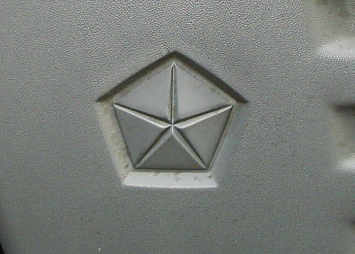 Jeep ZJ (Grand Cherokee) with Chrysler's Pentastar logo on the front fender lower side cladding used from 1993 through 1998 models - although the ZJ generation of Jeep vehicles were originally developed by American Motors Corporation (AMC).